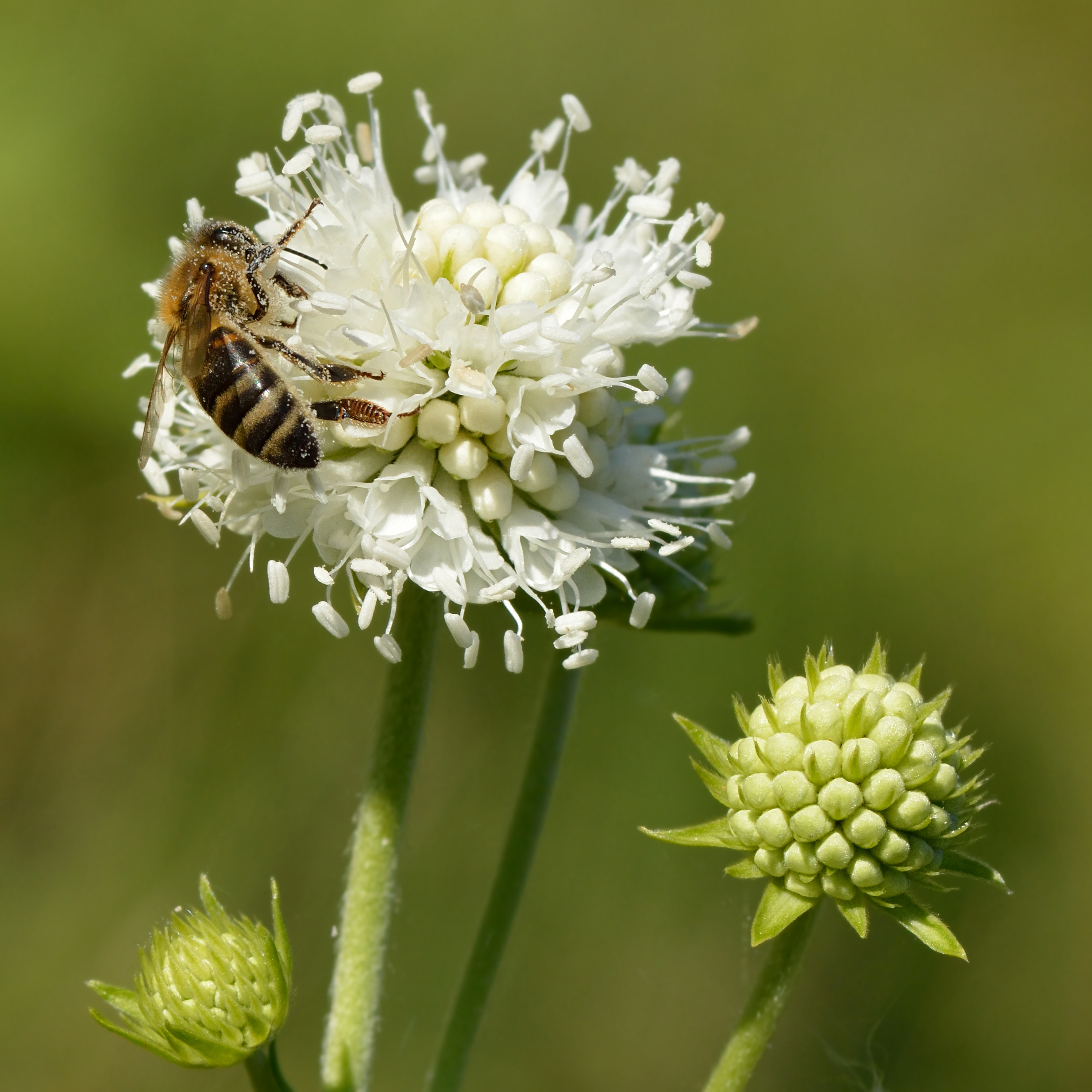 European honey bee (Apis mellifera) on the rare white-flowered devil's-bit scabious (Succisa pratensis). Keila, Northwestern Estonia.